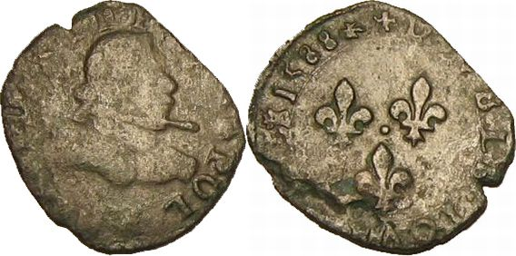 Double tournais of Henry III of Poland and France. Obverse: .FRAN.ET.POL Reverse:DOVBLE.TOVRNOIS.